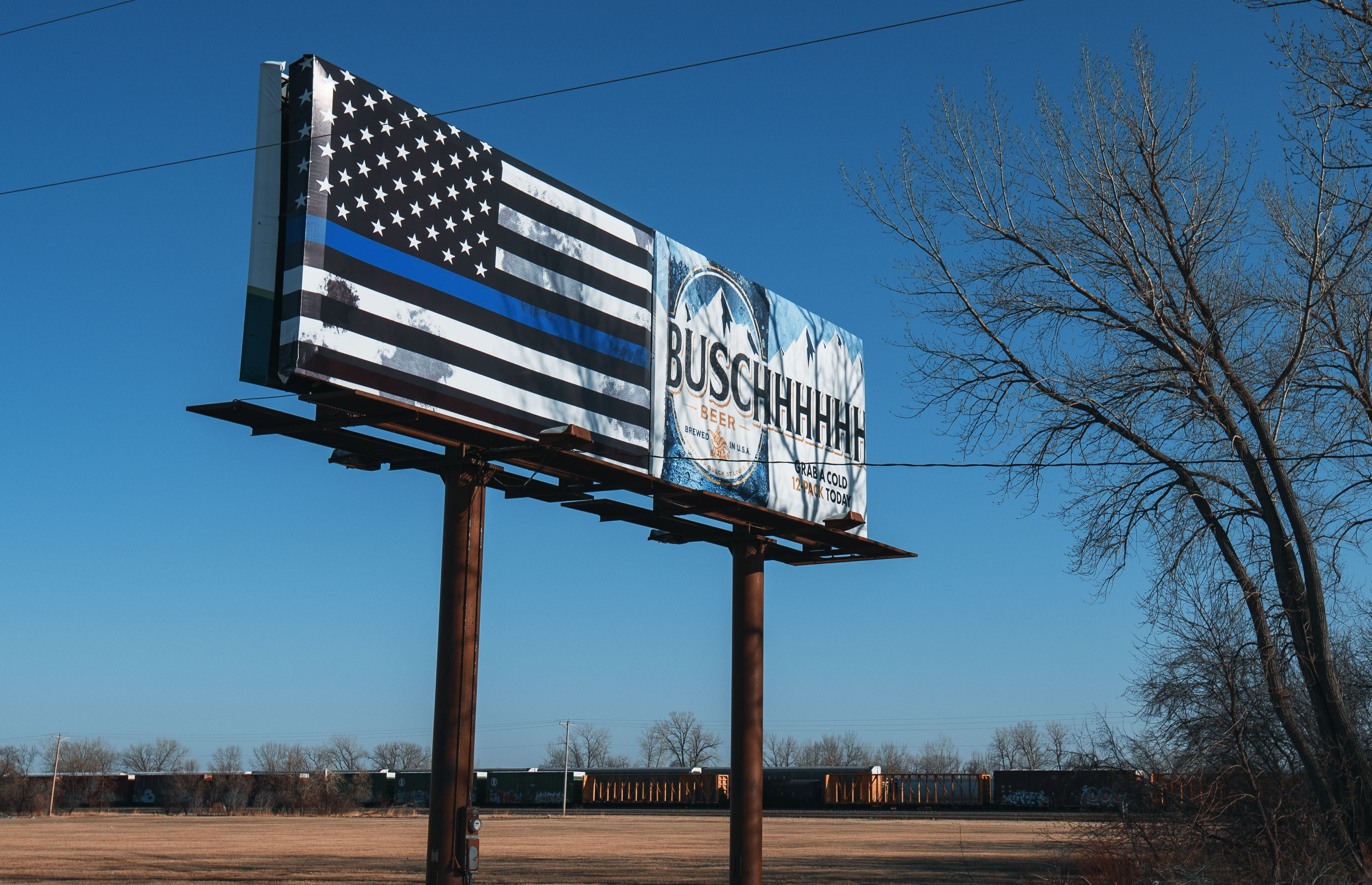 A billboard along US Route 10 in Dilworth, Minnesota has a 'Thin Blue Line' or 'Blue Lives Matter' flag and an advertisement for Busch beer. - © 2018 Tony Webster +1 202-930-9200